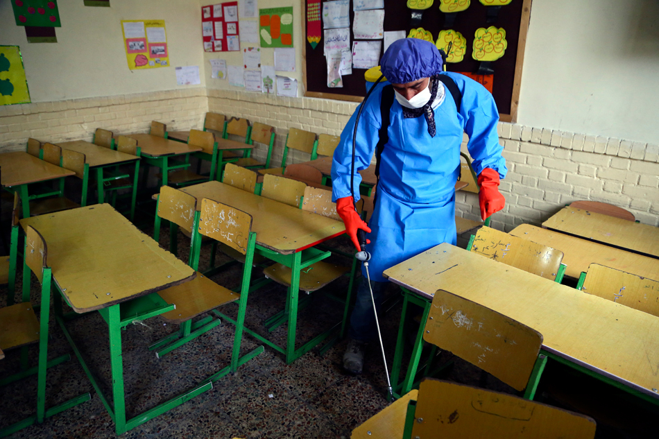 workers disinfect schools against coronavirus in Bojnord